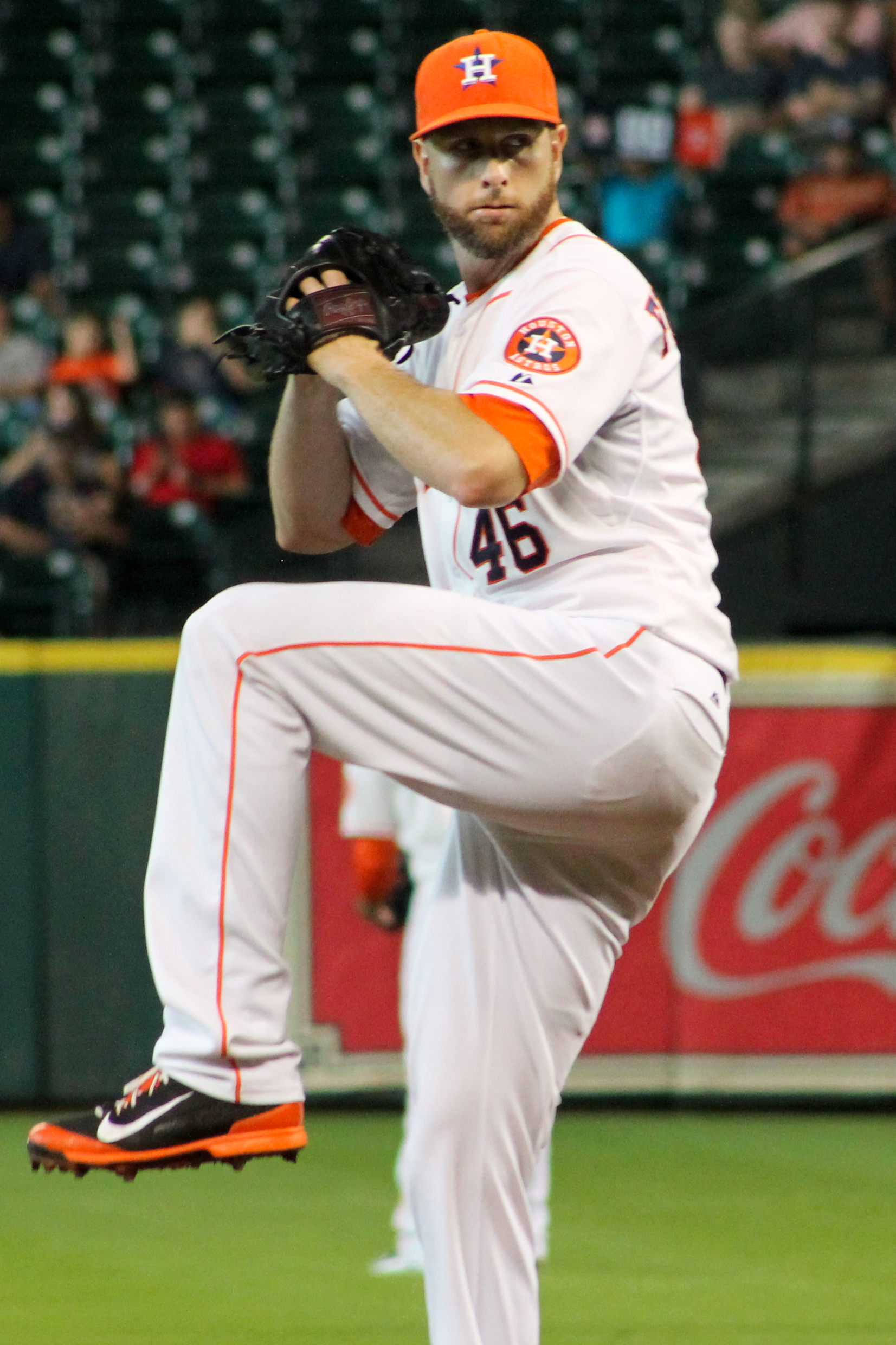 Professional baseball pitcher Scott Feldman at Minute Maid Park in August 2014.